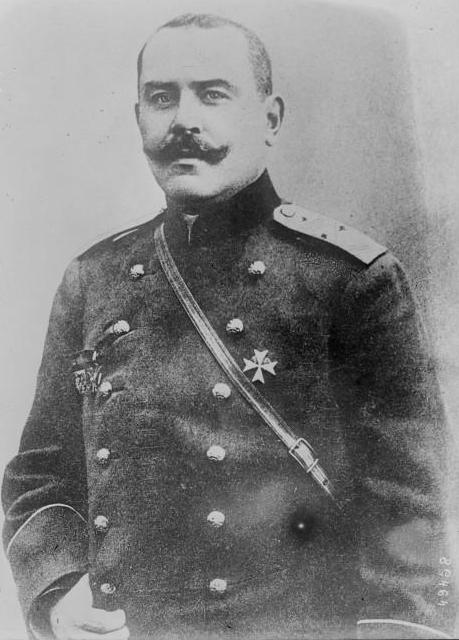 Photograph of the Ukrainian General Dragomirov, Vladimir Mikhaylovich in 1917.